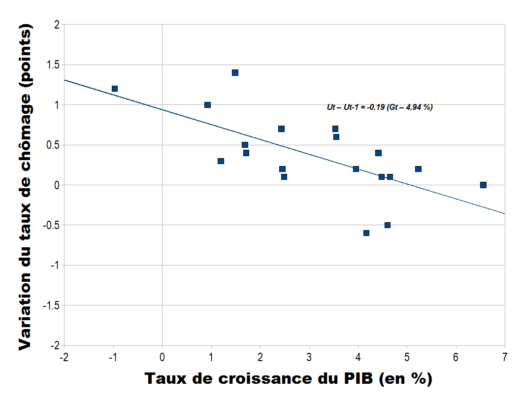 Relationship between the growth rate and change in unemployment rate (Okun's Law) in France 1970-1989. ILO and INSEE data. Each dot is one year.